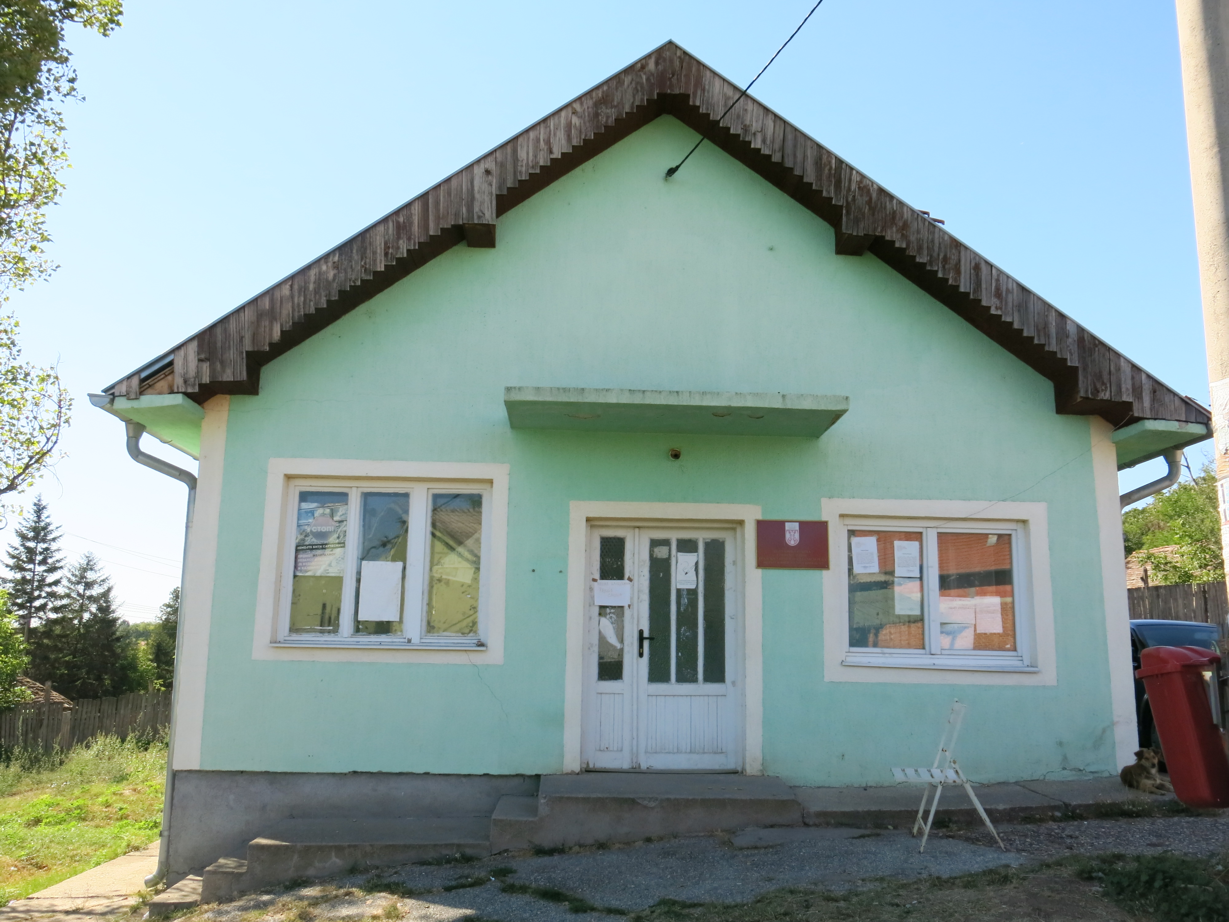 Binovac, Local community office